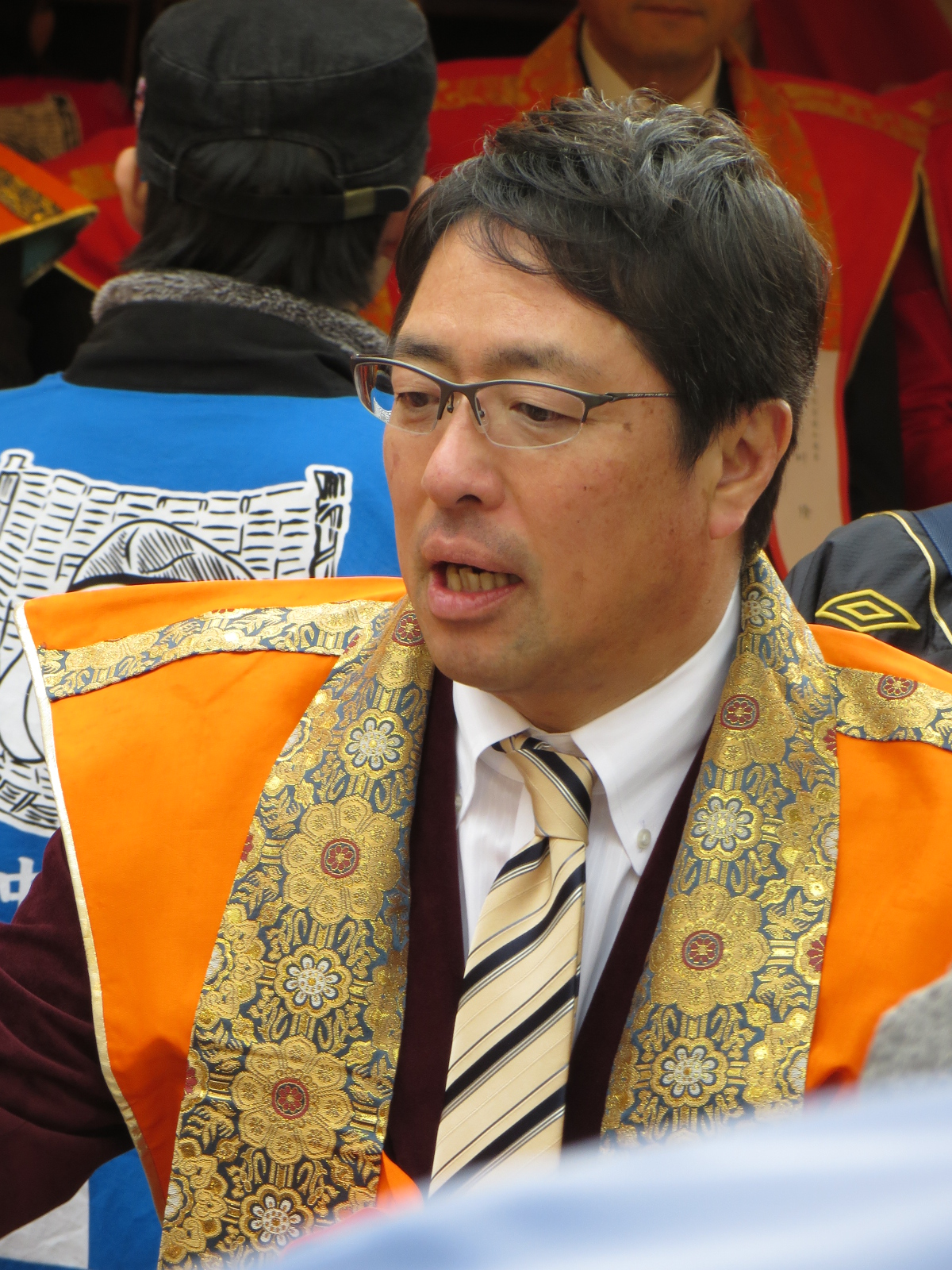 Jun Umeda (Japanese broadcaster, radio personality) in Hattori Tenjin-gu, Toyonaka, Osaka.